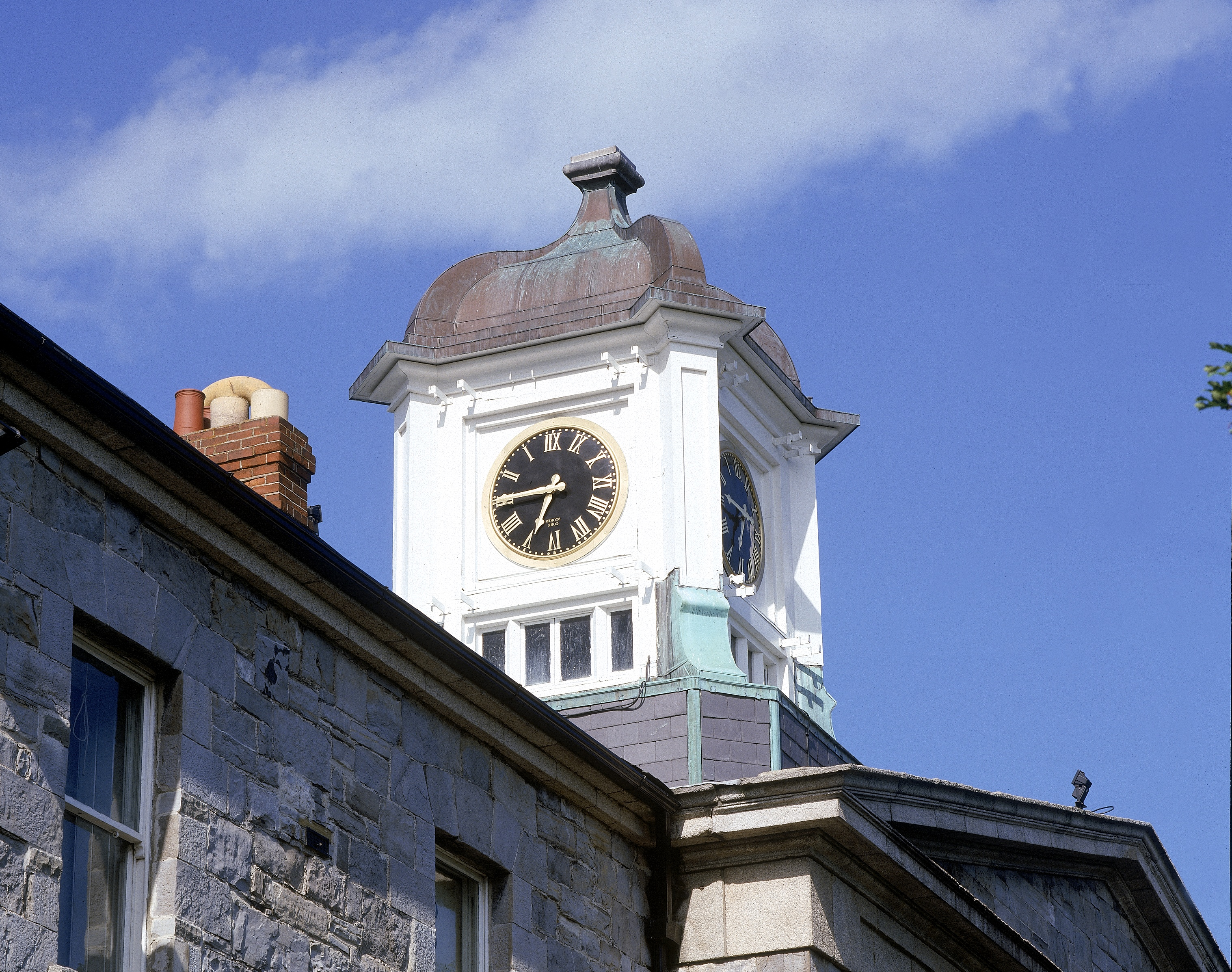 Griffith College Clock Tower